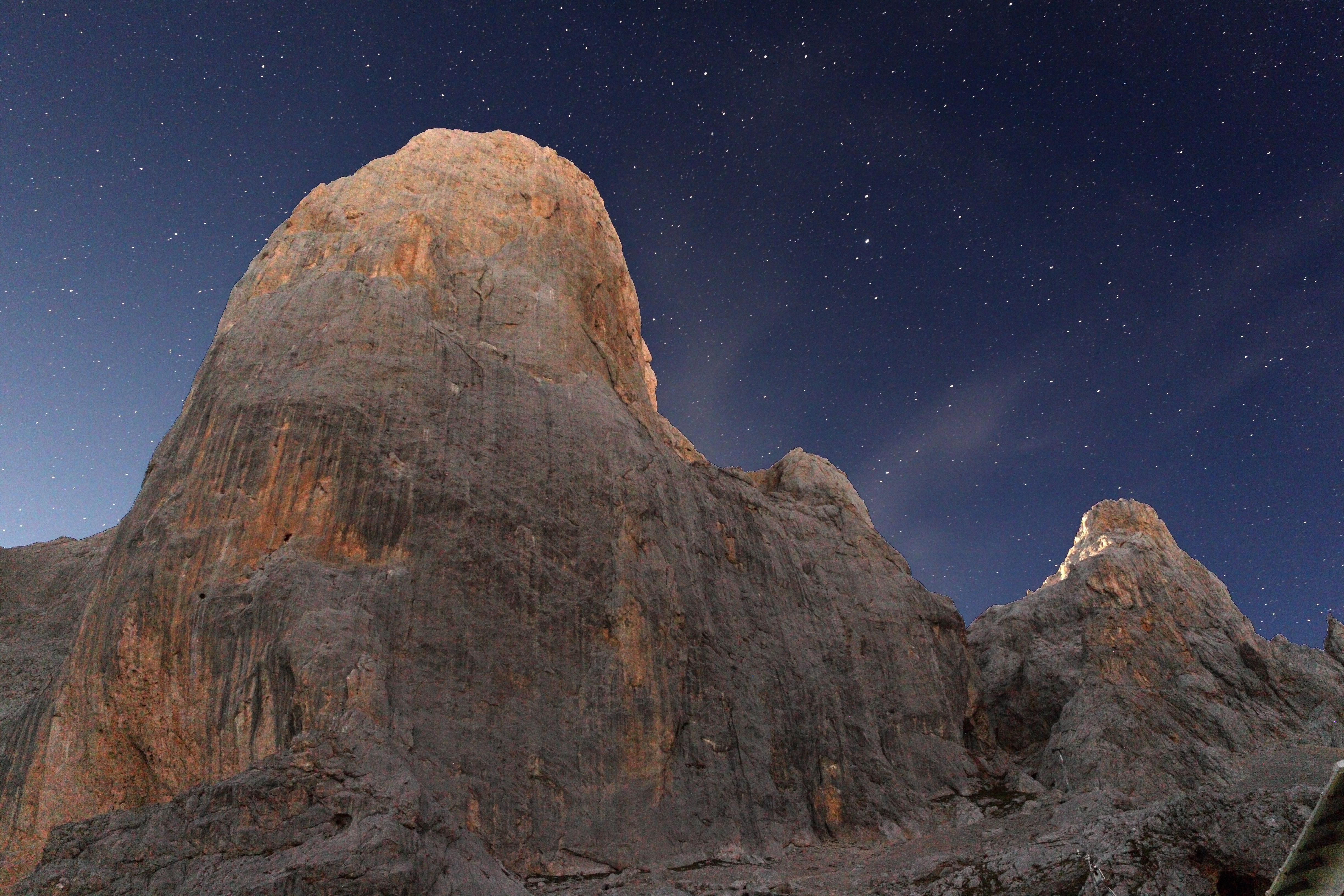 The Urriellu under the moonlight